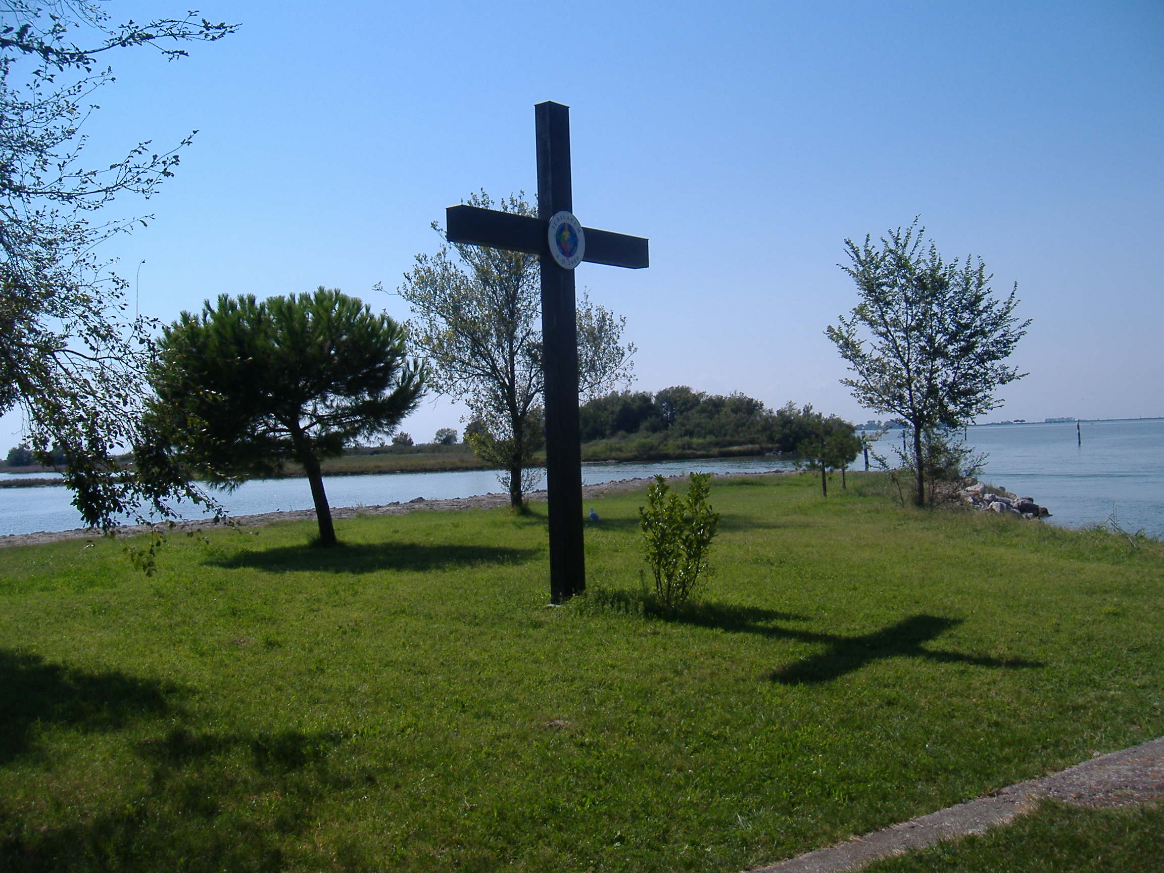 Barbana island: Jubilee 2000 Cros. Grado, Italy.